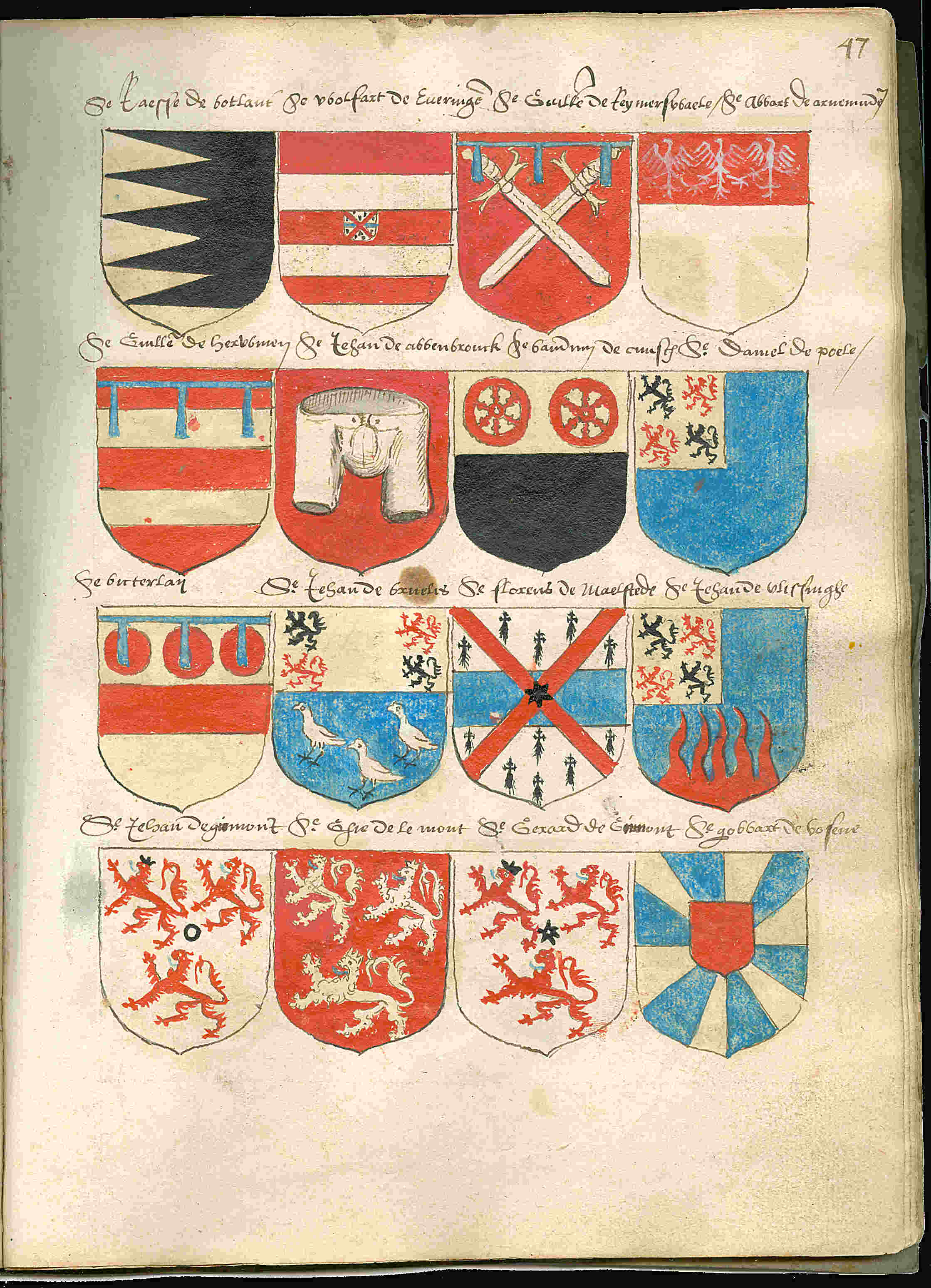 Page 47 from a copy of the Beyeren armorial / Wapenboek Beyeren from ca. 1600. The original Beyeren armorial from 1405 can be viewed at the website of the KB